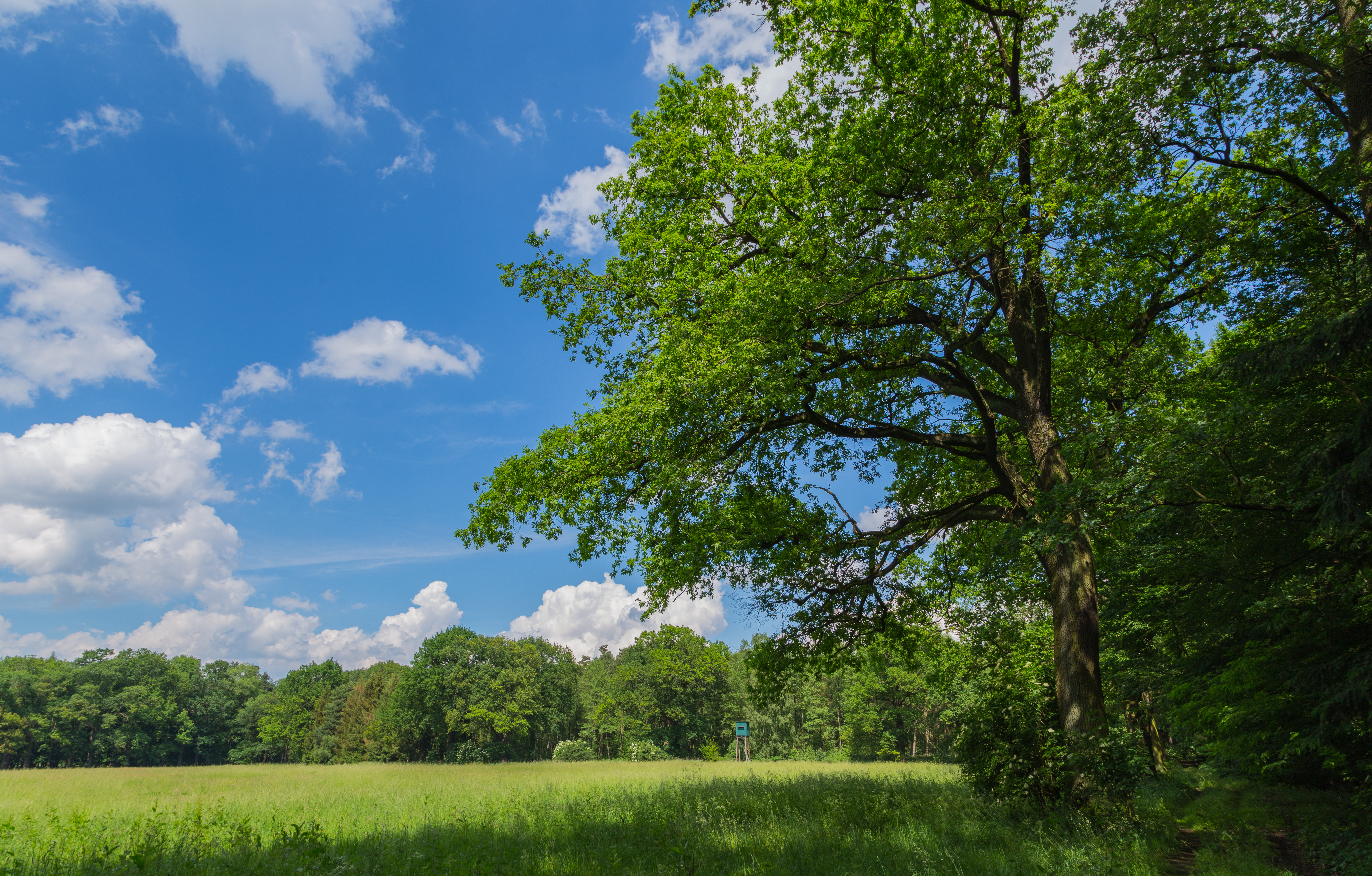 At Görlsdorf Wood (Görlsdorfer Wald) near Görlsdorf, district of Luckau, Landkreis Dahme-Spreewald, Brandenburg, Germany. The forest forms part of the nature reserve of the same name (Naturschutzgebiet Görlsdorfer Wald). It is also a Site of Community Importance (SCI).